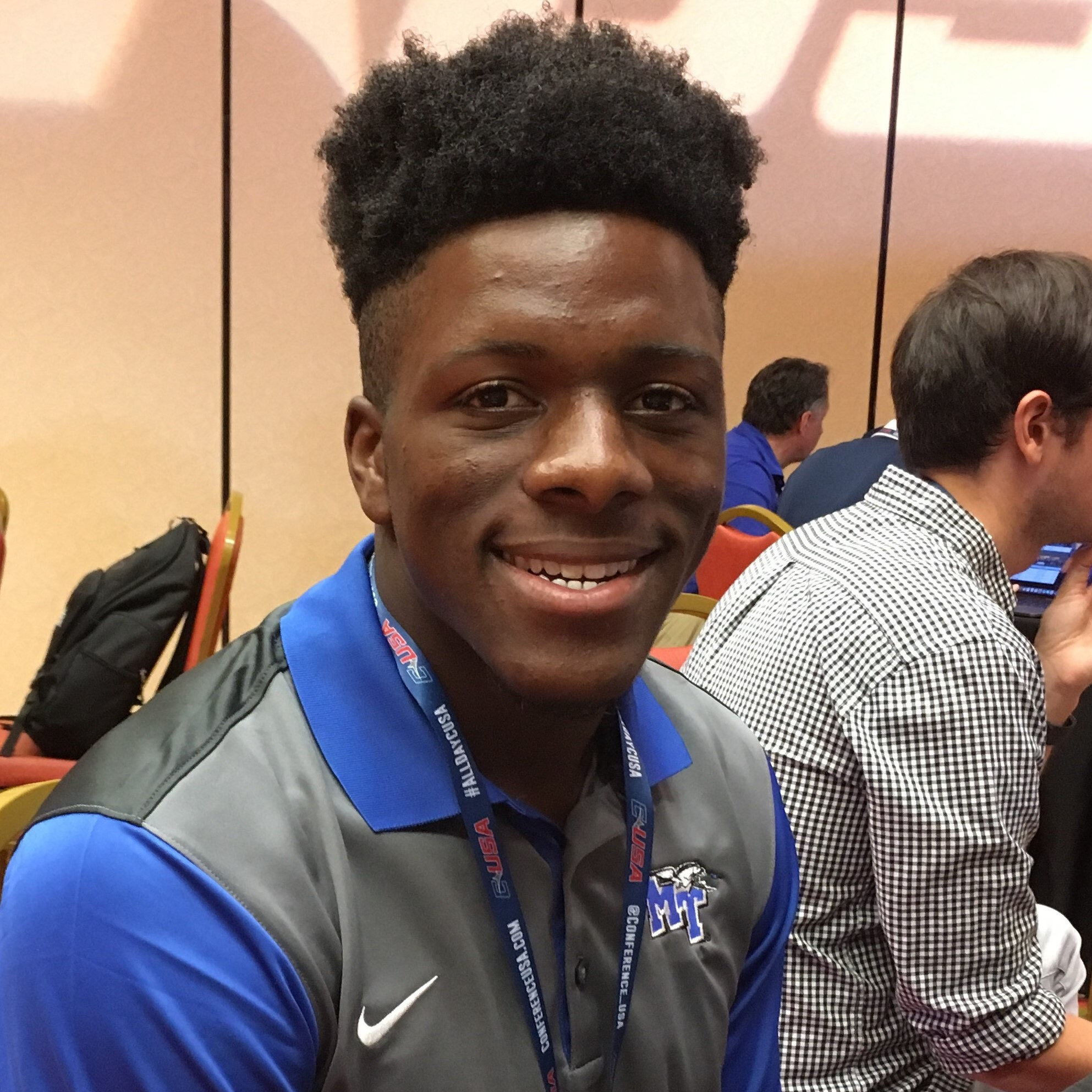 Richie James, wide receiver of the Middle Tennessee Blue Raiders football team, at the 2017 Conference USA media days in Irving, Texas.